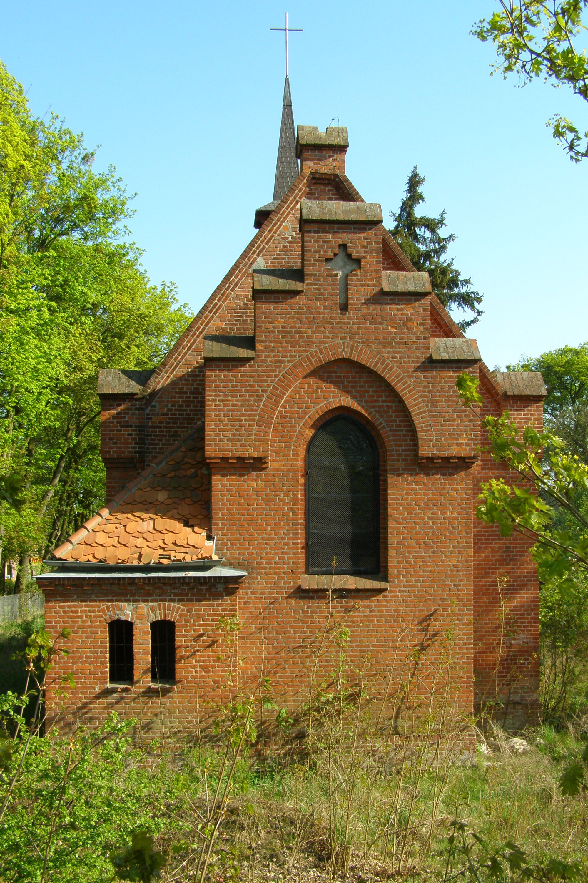 Closed church of St. Anna in Szubin - once belonging to the prisoner-of-war camp Oflag 64 and Stalag XXI-B